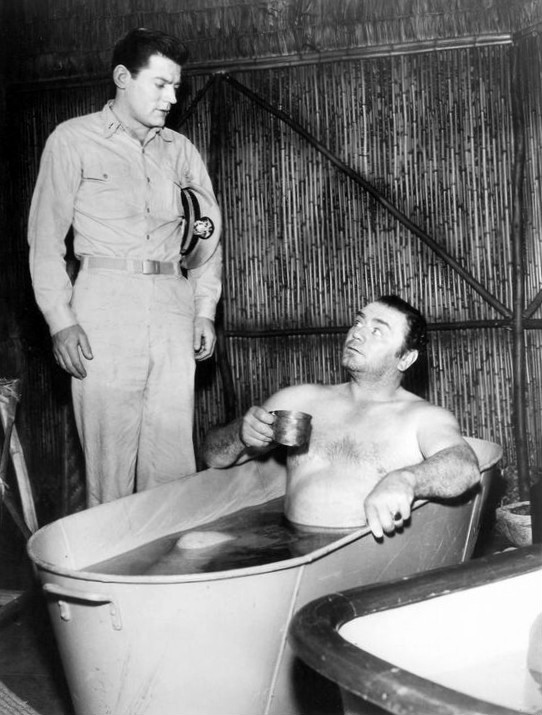 Photo from the Alcoa Presents presentation of Seven Against the Sea. This was what sparked the regular television series, McHale's Navy. Pictured are Ernest Borgnine as Commander McHale and Ron Foster as Lieutenant Durham. Foster did not continue on to the regular television series.